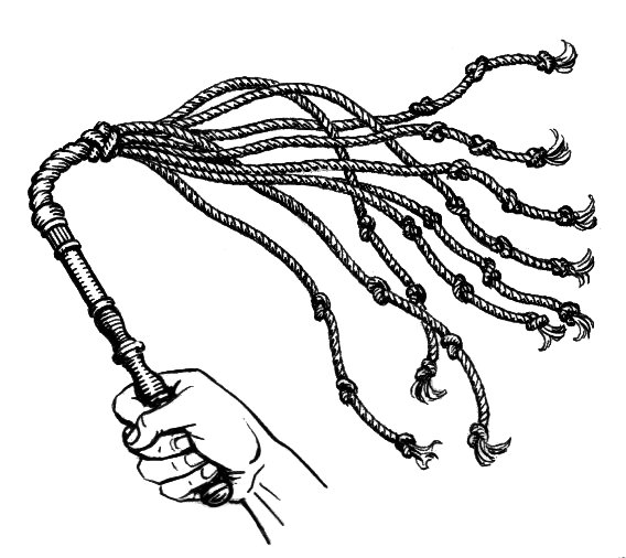 line art drawing of cat-o'-nine-tails.